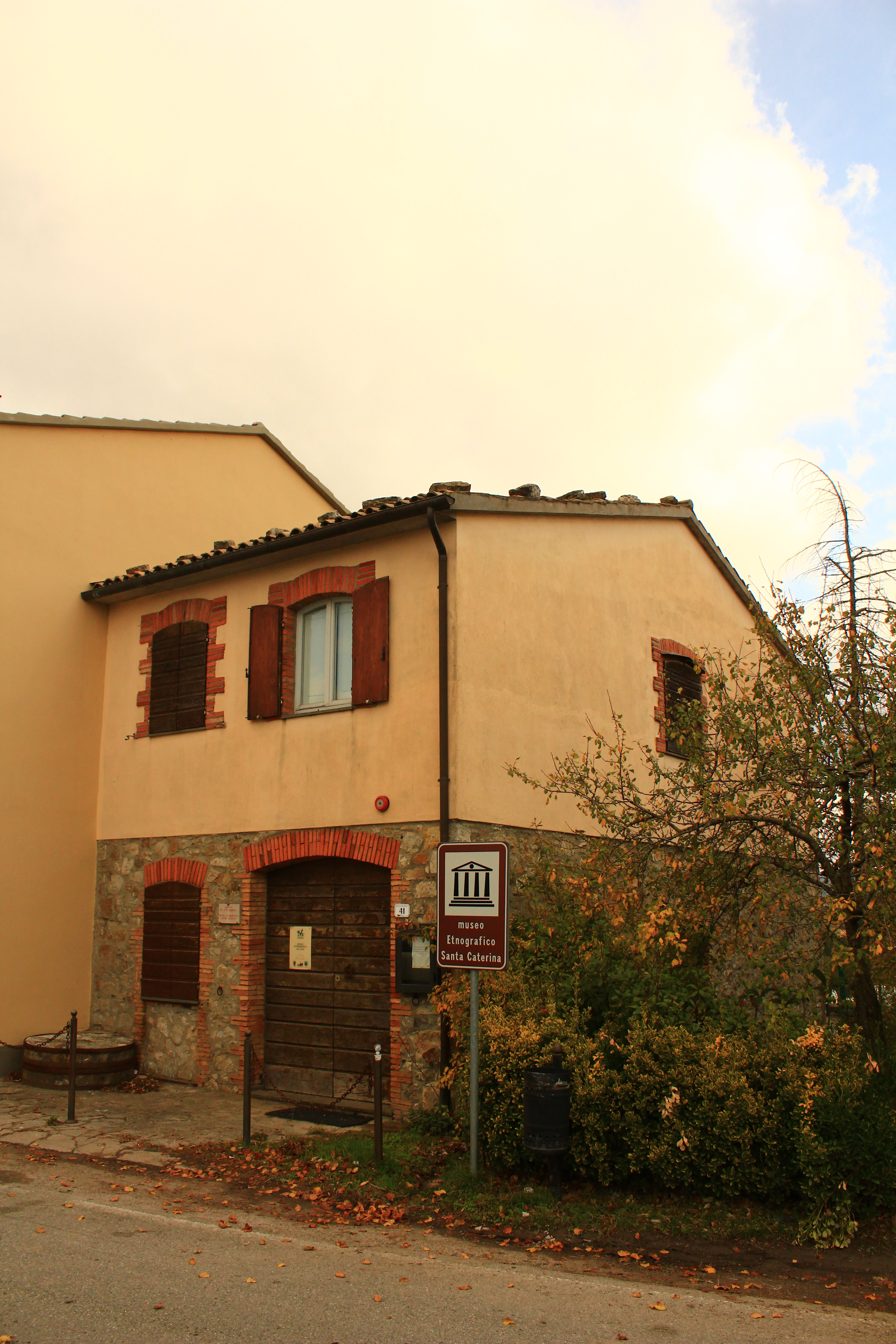 Museum of Santa Caterina, Grosseto